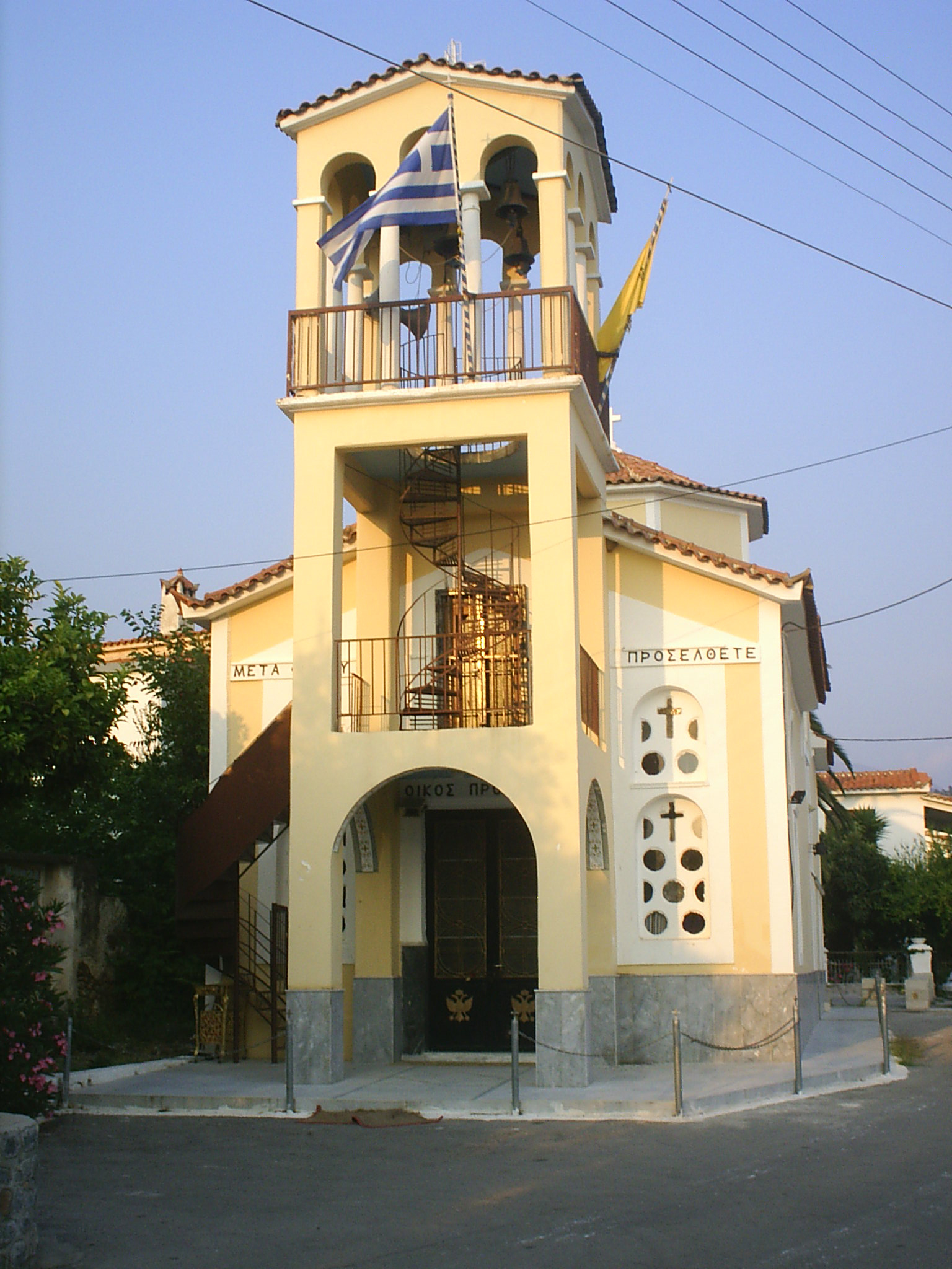 Church in Avia, Messinia, Greece